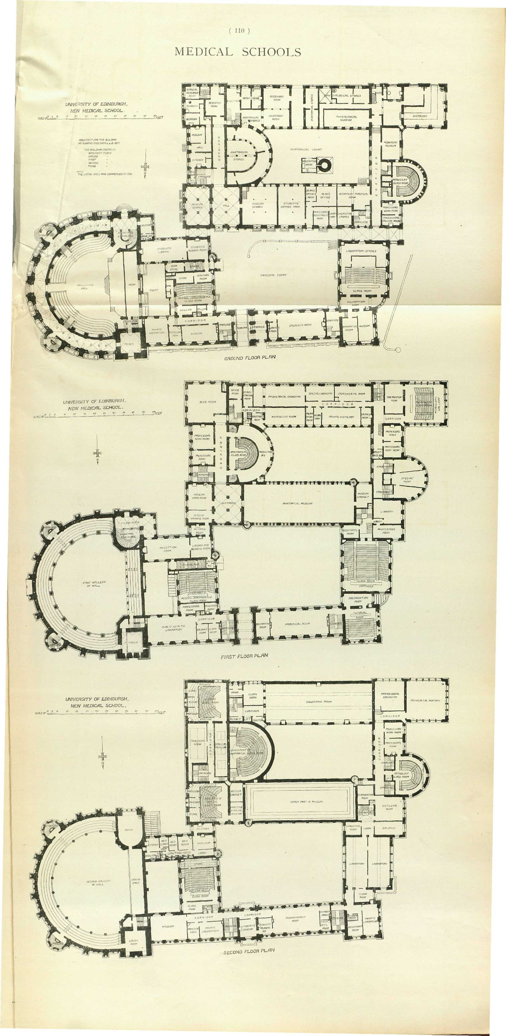 An individual page from the scanned book: Hospitals and Asylums of the World : Portfolio of Plans (1893)